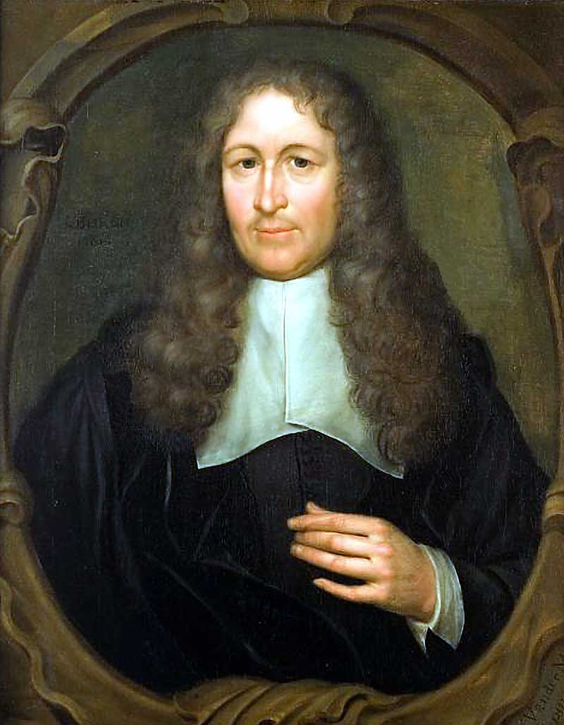 Albertus Rusius (1614-1678) Dutch jurist